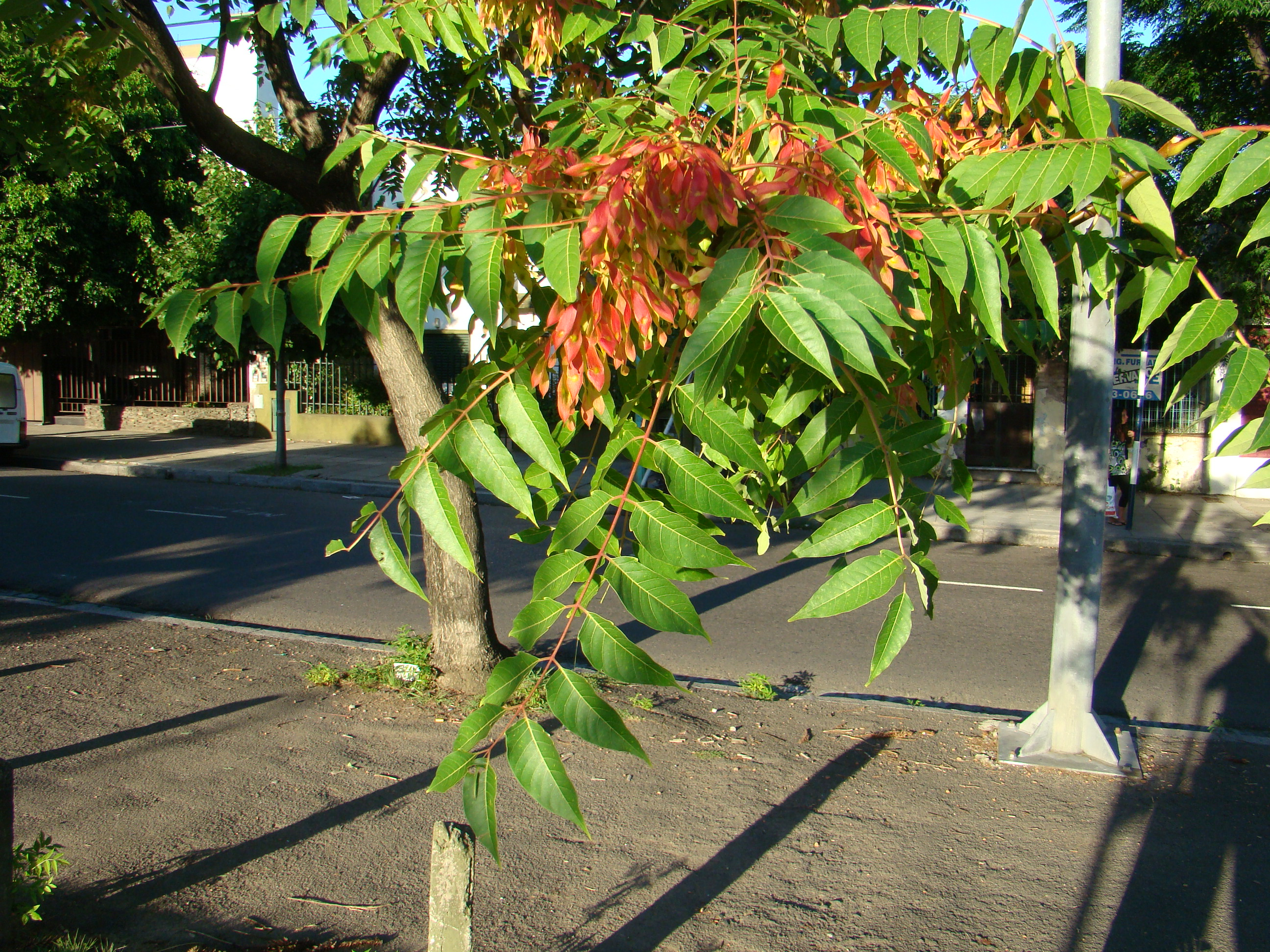 Ailanthus altissima con fruto